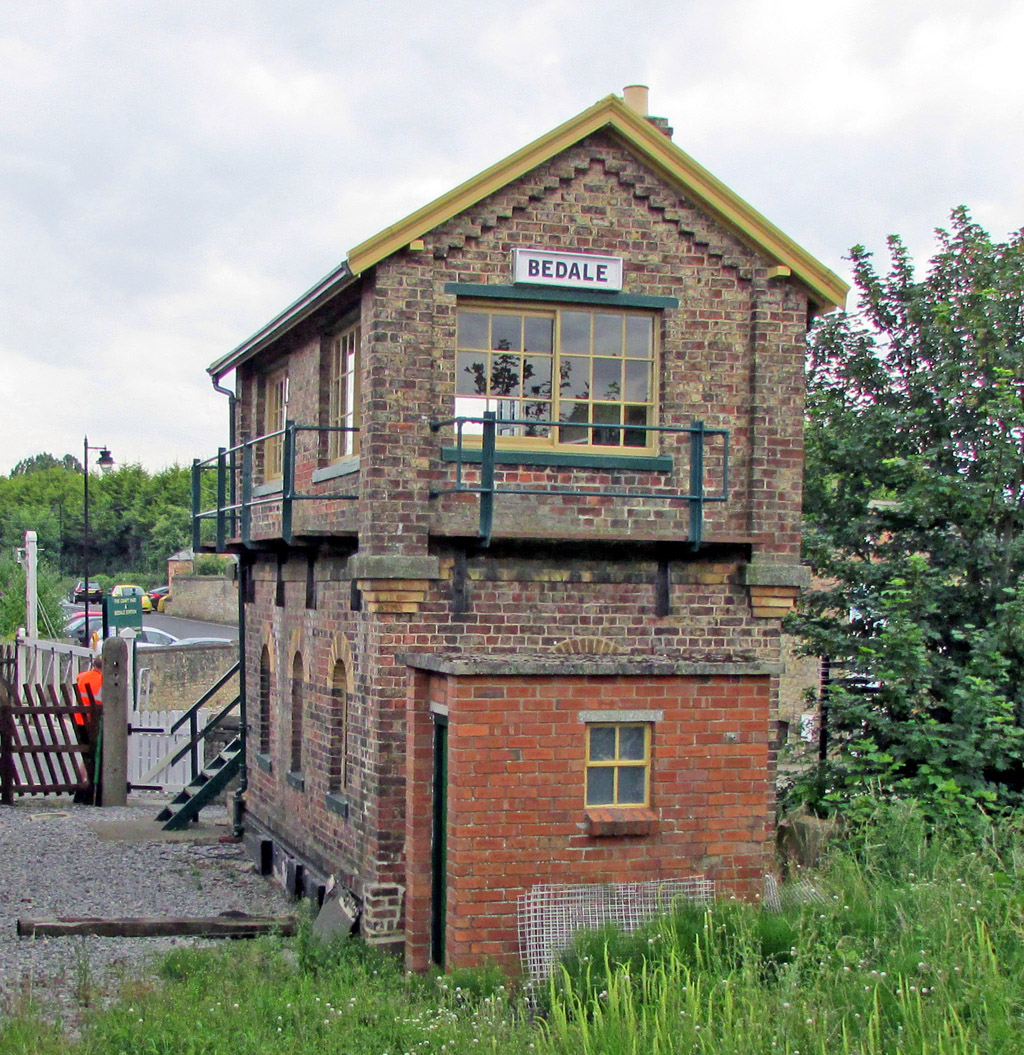 Bedale Signal Box Wensleydale Railway N. Yorks in 2014